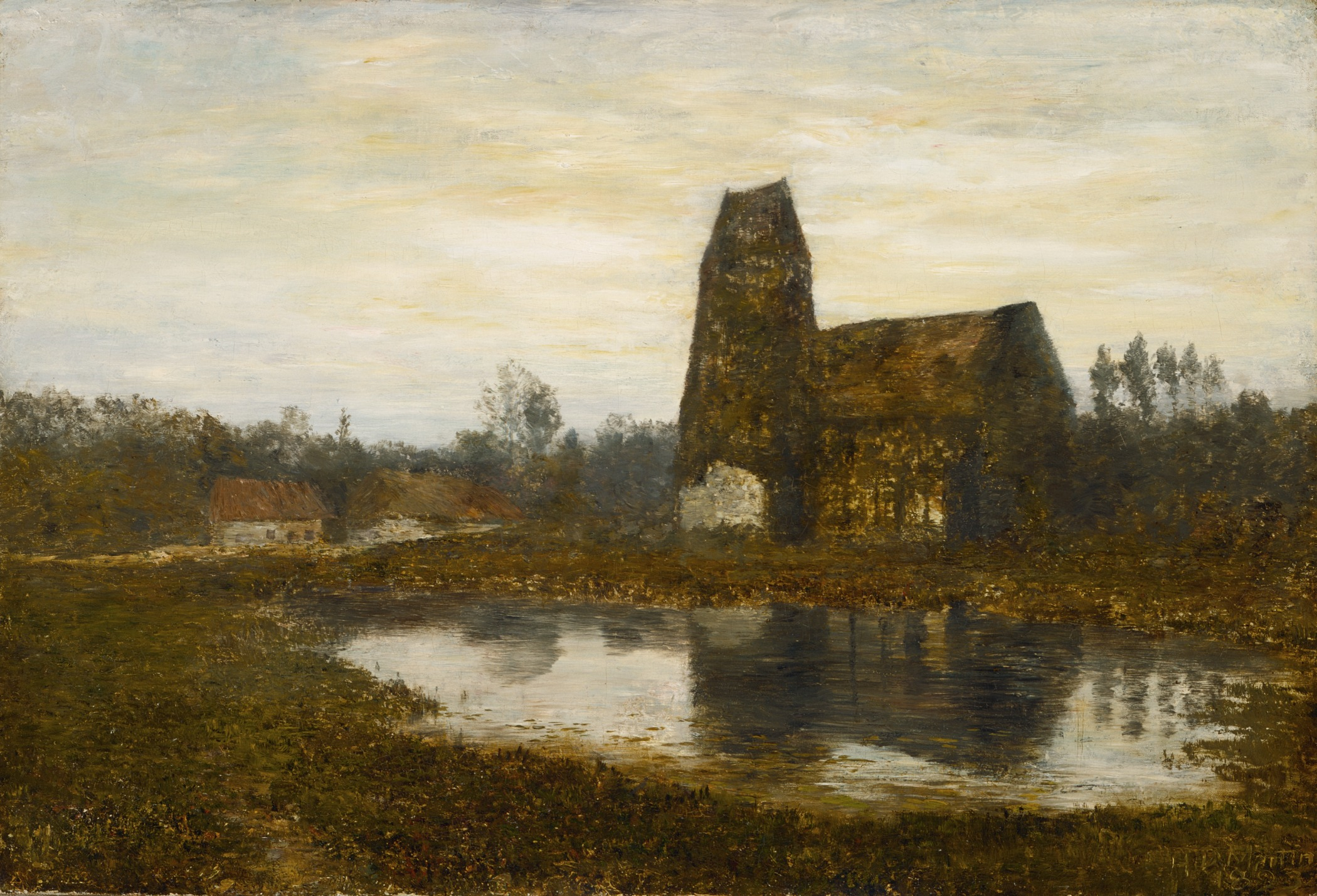 United States, 1893 Paintings Oil on canvas Gift of Anthony E. Battelle (M.90.159) American Art